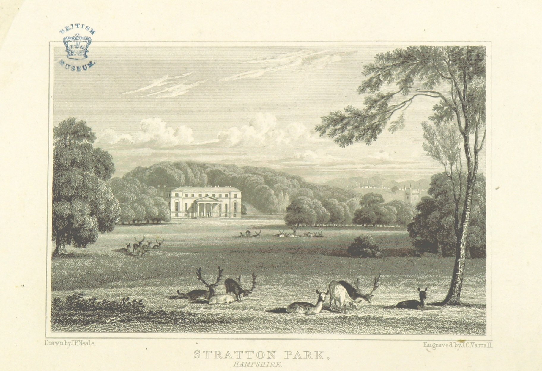 Stratton Park. Stratton Park (forerunner of Woburn Abbey west facade) was part demolished in 1767, by 6th Duke of Bedford. Following sale to the Baring family, it was re-built and remodelled in 1801, mainly of plastered brick but had an impressive Greek portico in Portland stone with Doric columns. The portico was listed but the rest of the building wasn't. In 1965, Lord Ashburton (Baring) demolished the whole building except the portico, and built a modern house in its place. The stables survive, now called The Clock House.